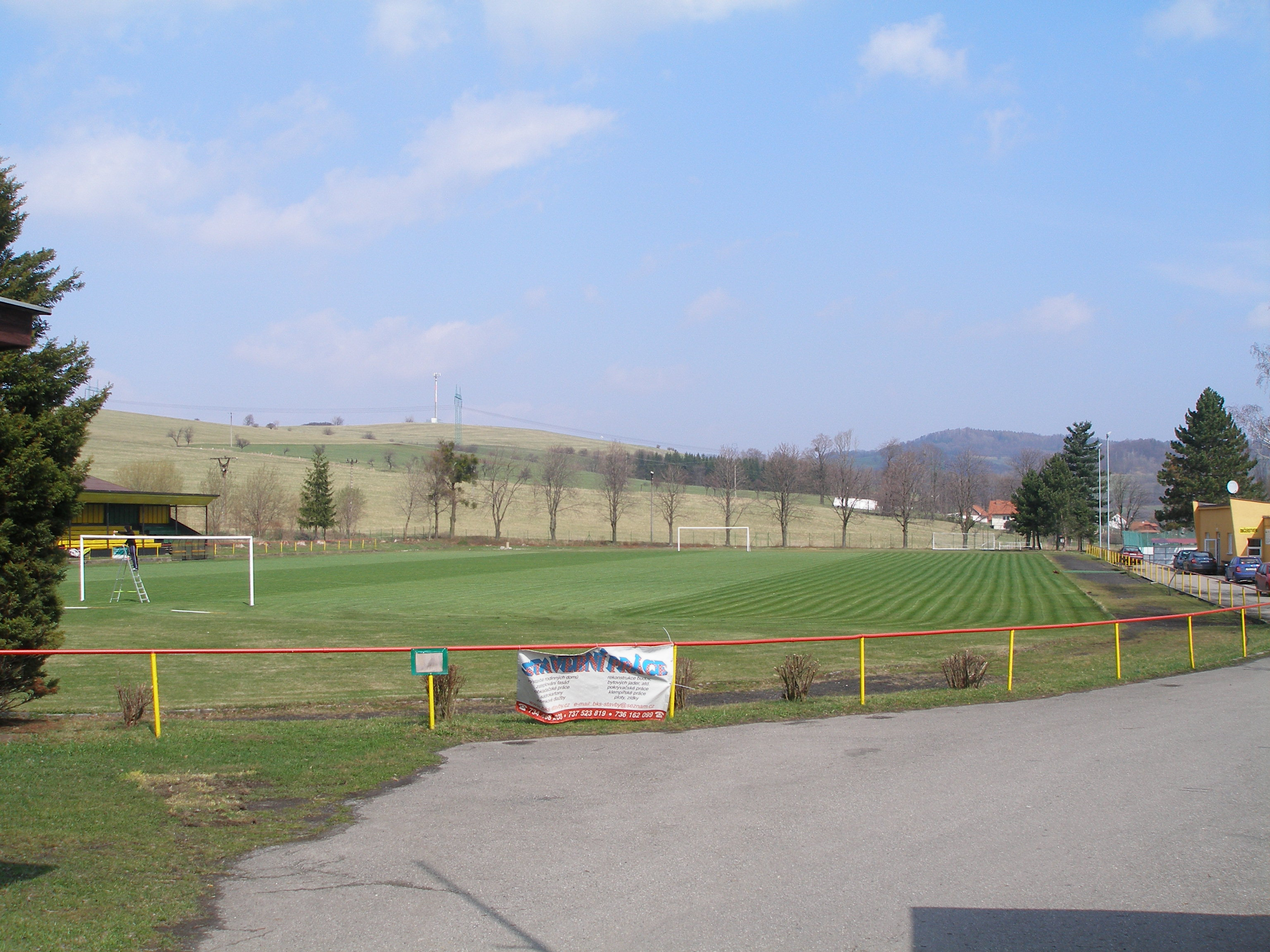 Football stadium in Mořkov.